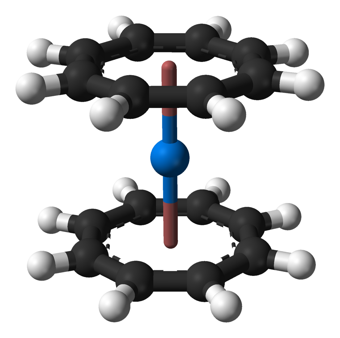 Ball-and-stick model of the neptunocene molecule, Np(C8H8)2], as found in the solid state. X-ray crystallographic data from D. J. A. De Ridder, J. Rebizant, C. Apostolidis, B. Kanellakopulos and E. Dornberger (March 1996). "Bis(cyclooctatetraenyl)neptunium(IV)". Acta Cryst. C52 (3): 597-600. Model constructed in CrystalMaker 8.1. Image generated in Accelrys DS Visualizer.